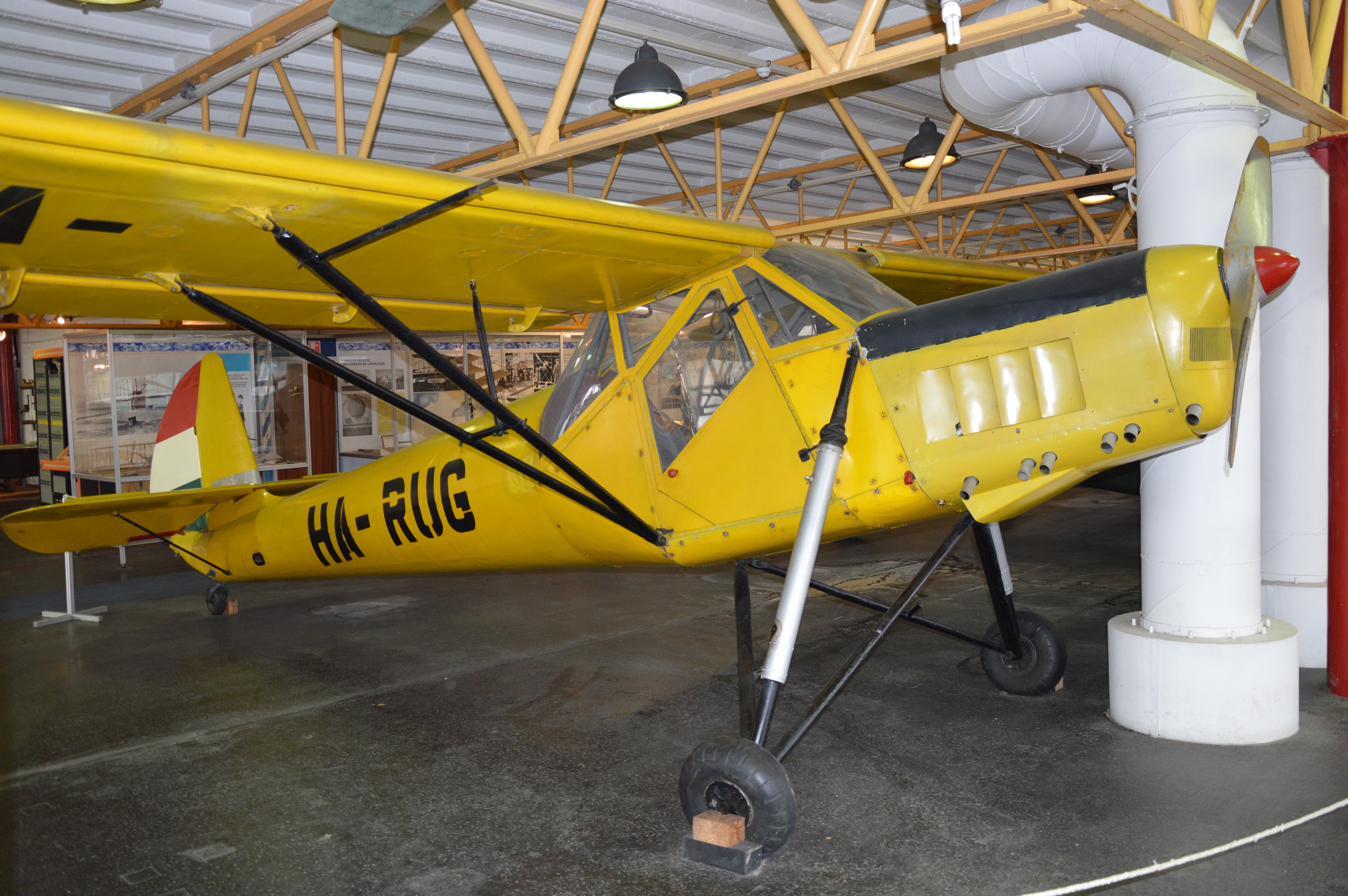 Rubik R-18 Kánya liaison aircraft and glider tug (reg. HA-RUG)